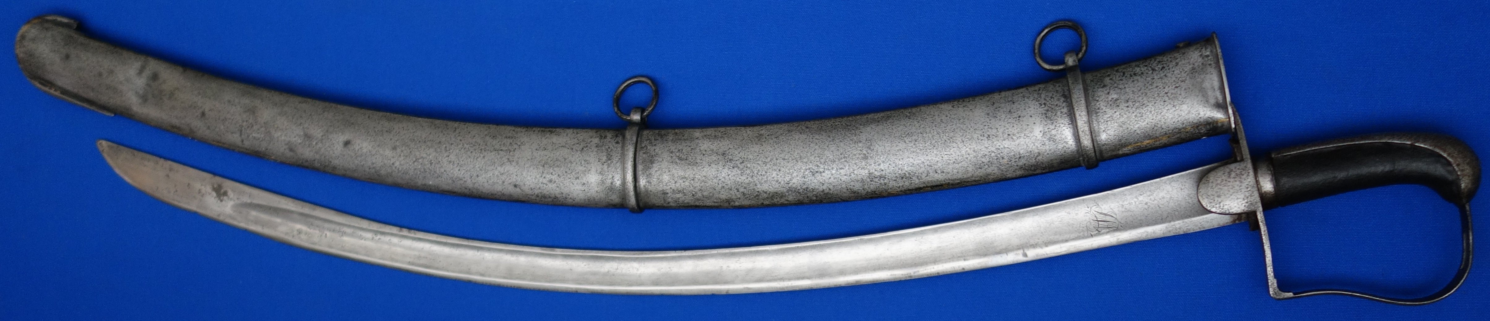 A 1796 British Light Cavalry battle damaged sword from the 16th Light Dragoons, marked with the initials WT (Capt. William Tomkinson) near the Ricasso (left of picture) and on the scabbard.